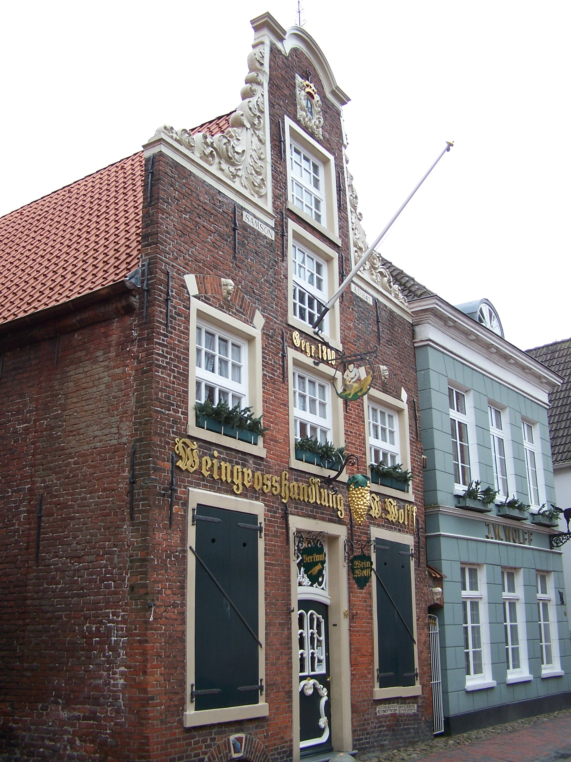 House in Leer, Germany